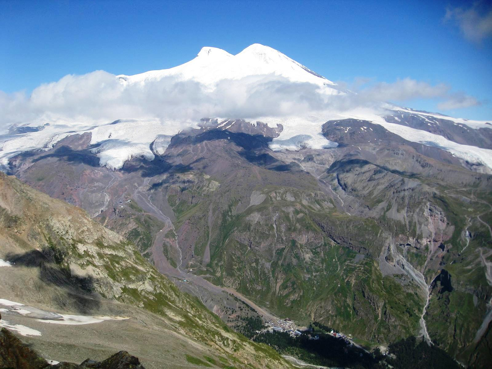 Mt. Elbrus, dwarfing the Baksan Valley and the village of Terksol.